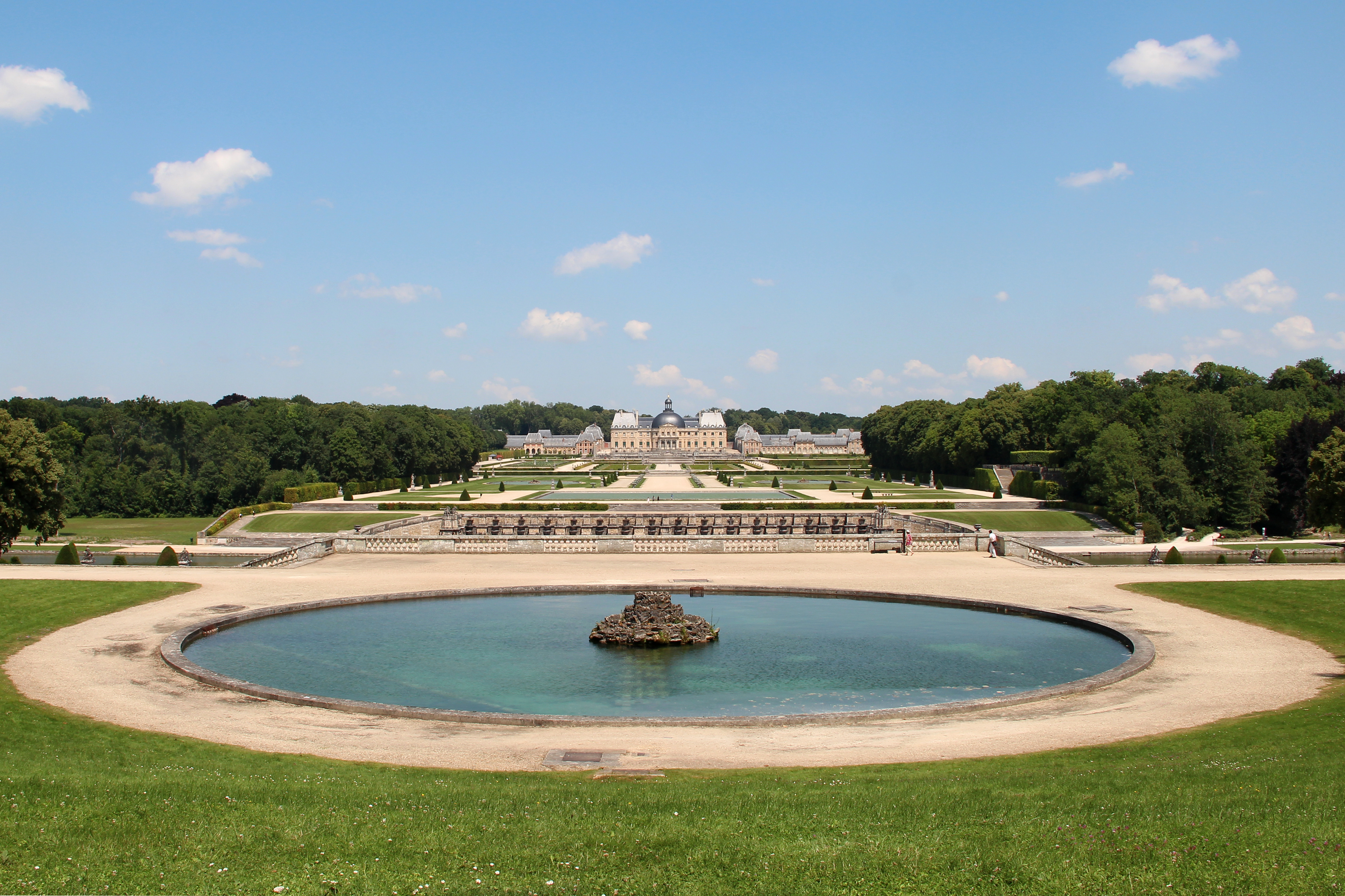 Gardens and castle of Vaux-le-Vicomte - Maincy (Seine-et-Marne, France).